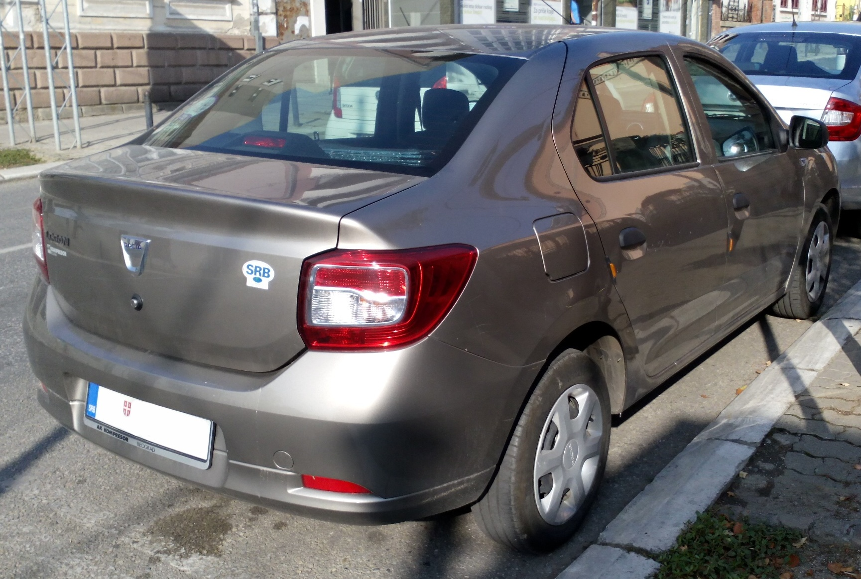 Dacia Logan II in Kragujevac, Serbia